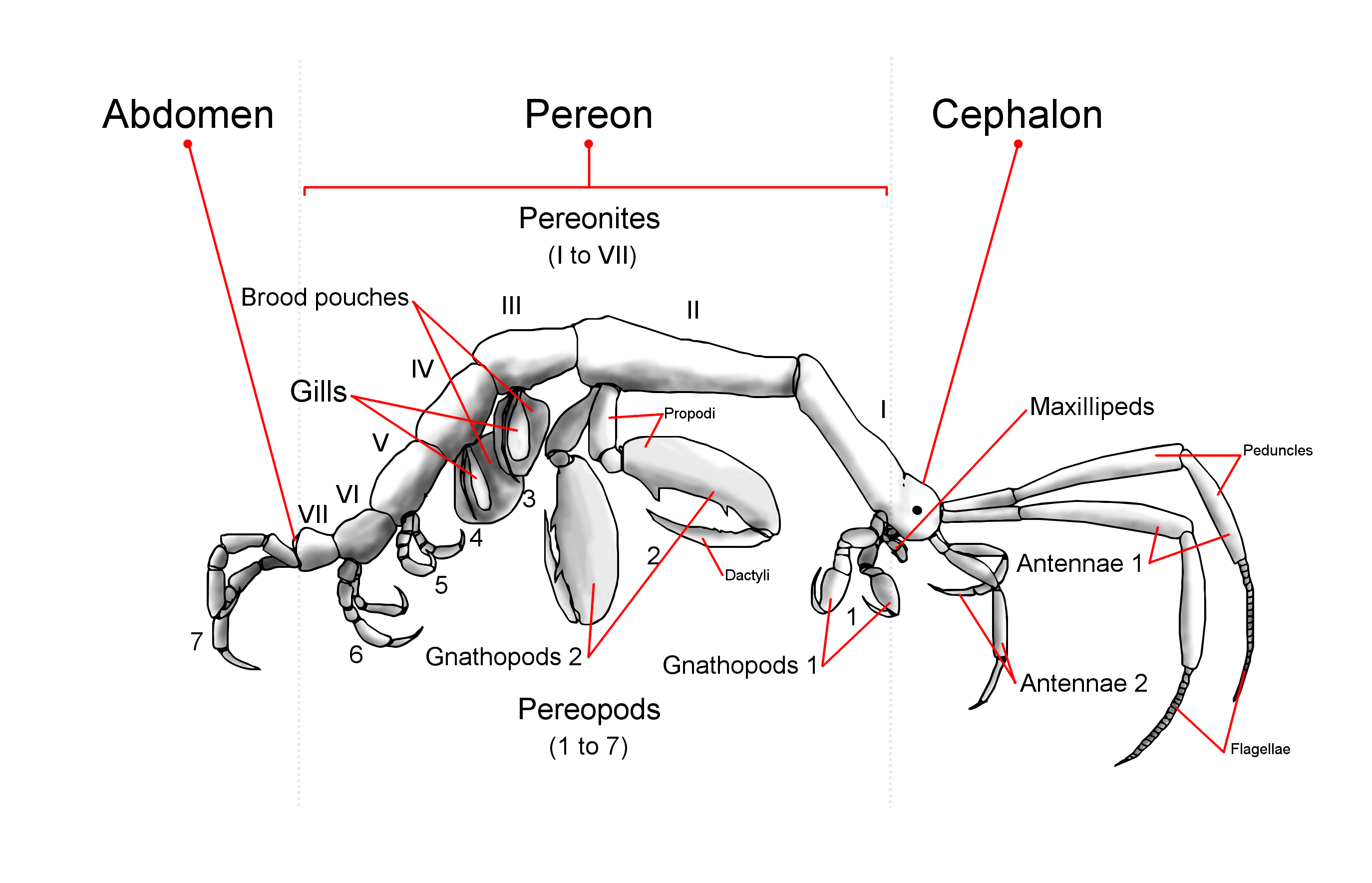 Generalized caprellid (skeleton shrimp) body plan anatomy